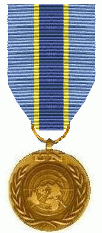 Medaille voor Mission de l`Organisation des Nations Unies en République démocratique du Congo